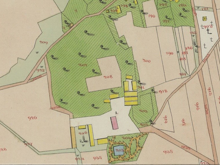 Jasionów - manor house and cemetery on a Jasionów map from 1851